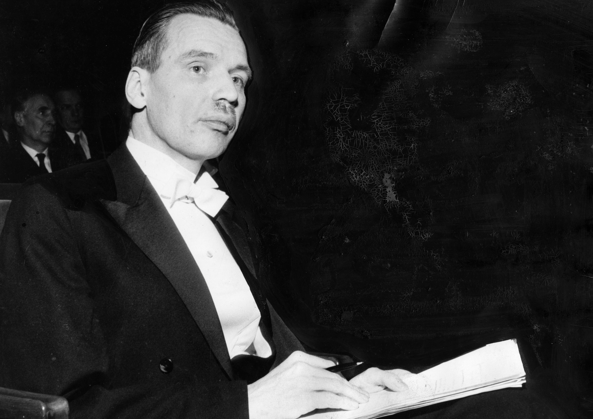 Photograph of the Finnish musicologist Erik Tawaststjerna (1916–1993). The photograph is grossly retouched by Helsingin Sanomat, and a person to the right removed.